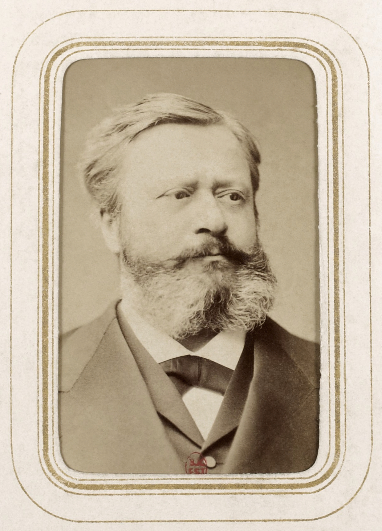 Edmond About (1828-1885), french writer (novelist), journalist and art critic, member of the Académie française